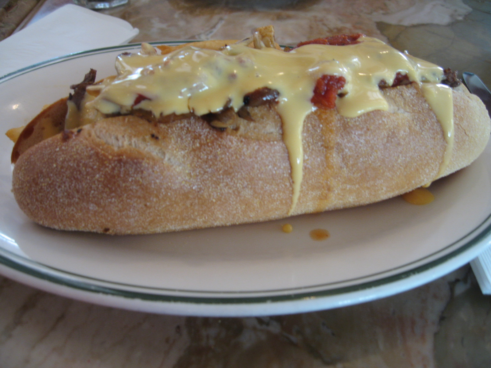 Philly cheese steak.